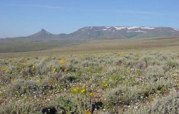 East slope of the Trout Creek Mountains in southeastern Oregon with Disaster Peak in background